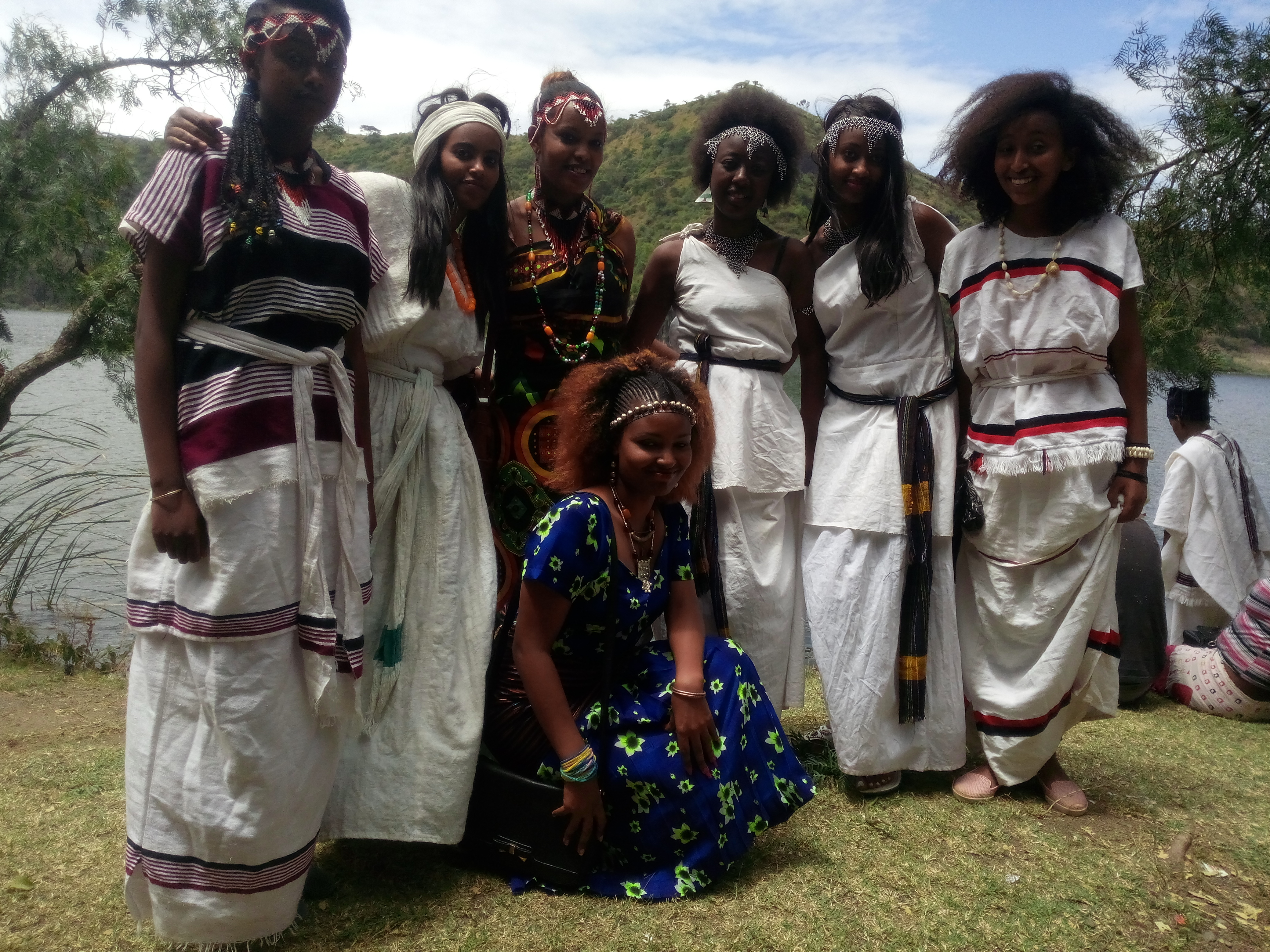 Oromo Girls celebrating Irrecha, the new season at Hora Arsadi, dressing cultural home made cloths with varieties of ornaments. This is an image of Cultural Fashion or Adornment from Ethiopia